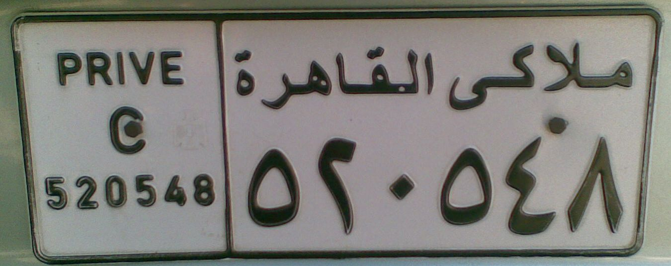 2000s Egyptian license plate